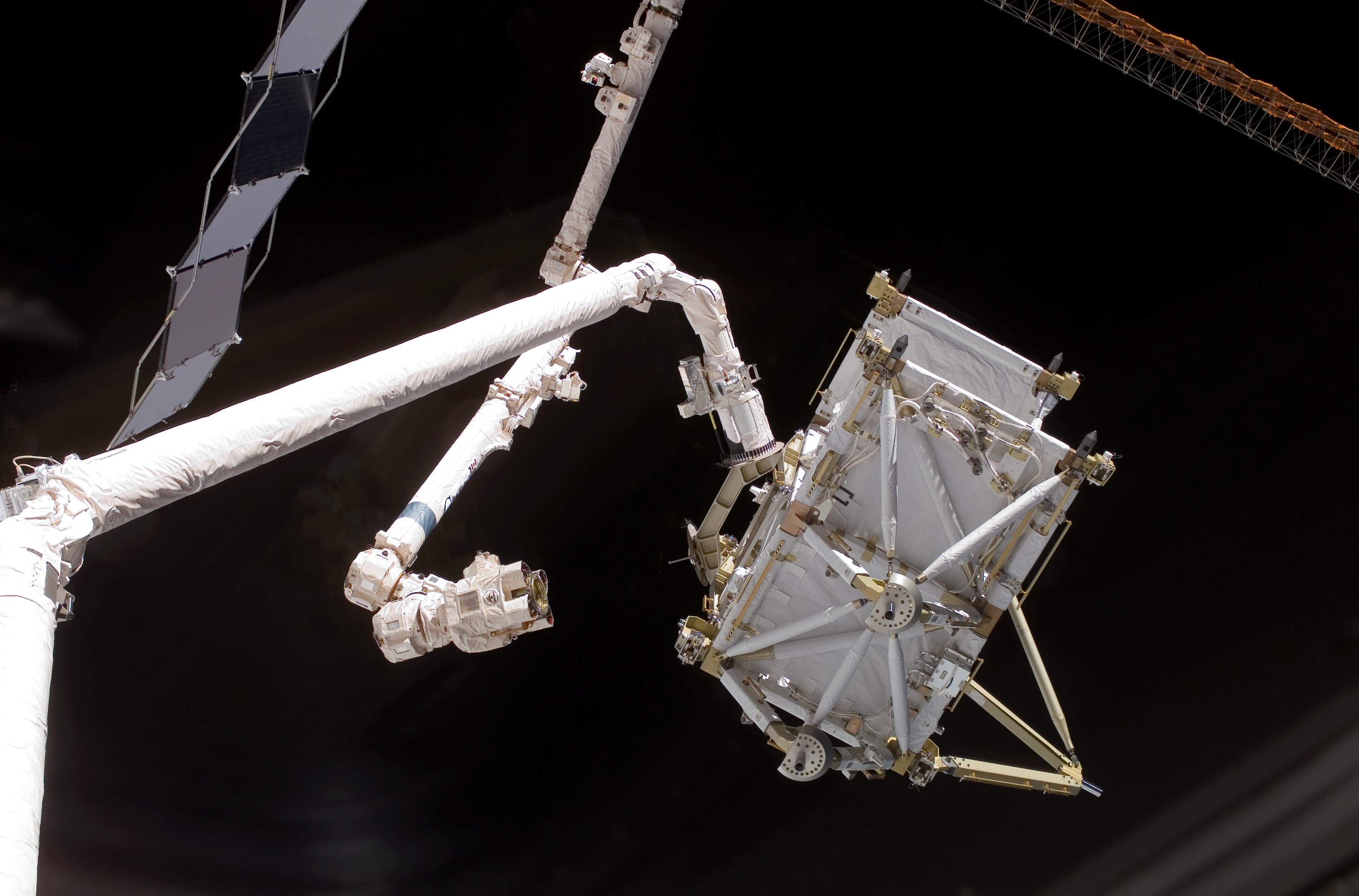 STS-116 Shuttle Mission Imagery S116-E-05765 (11 Dec. 2006) --- The International Space Station's Canadarm2 moves toward the station's new P5 truss section for a hand-off from Space Shuttle Discovery's Remote Manipulator System (RMS) robotic arm.